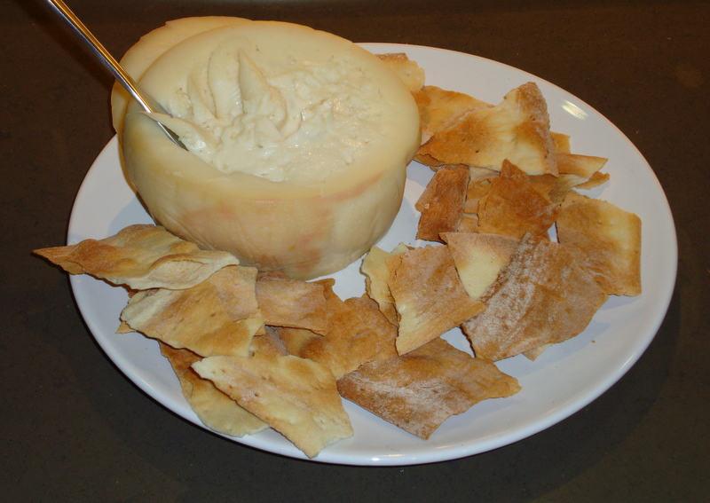 Recommended by Chef Teresa and "mejor del mundo" according to the guy at the Boqueria.